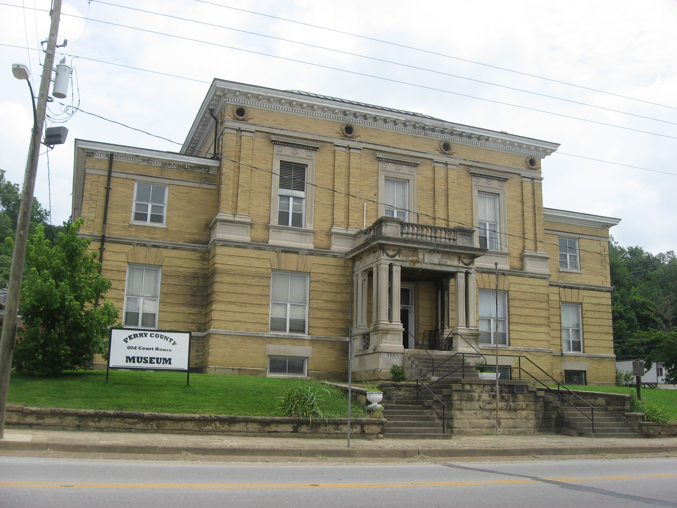 Front of the former Perry County Courthouse, located on Seventh Street (State Road 66) in downtown Cannelton, Indiana, United States. Built in 1897, it is part of the Cannelton Historic District, a historic district that is listed on the National Register of Historic Places.